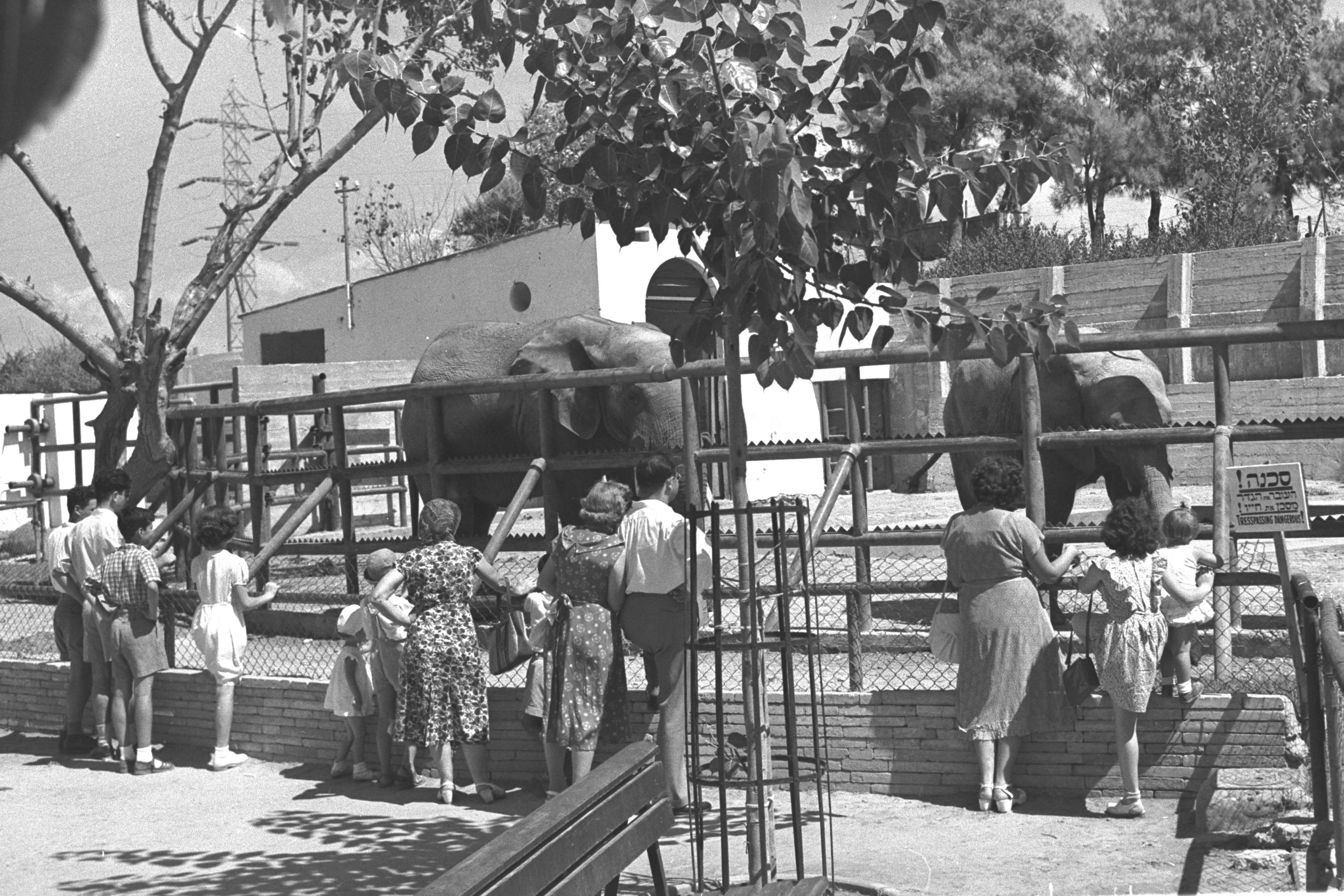 Original Description: CROWDS VISITING THE ELEPHANTS AT THE TEL AVIV ZOO.